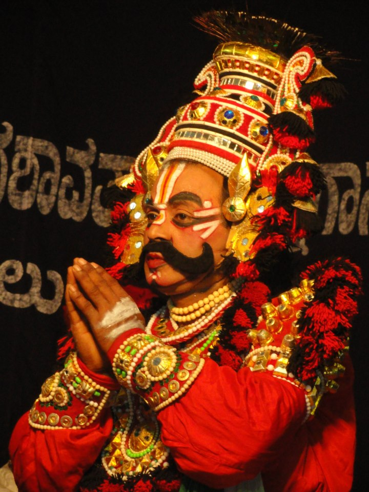 devendra